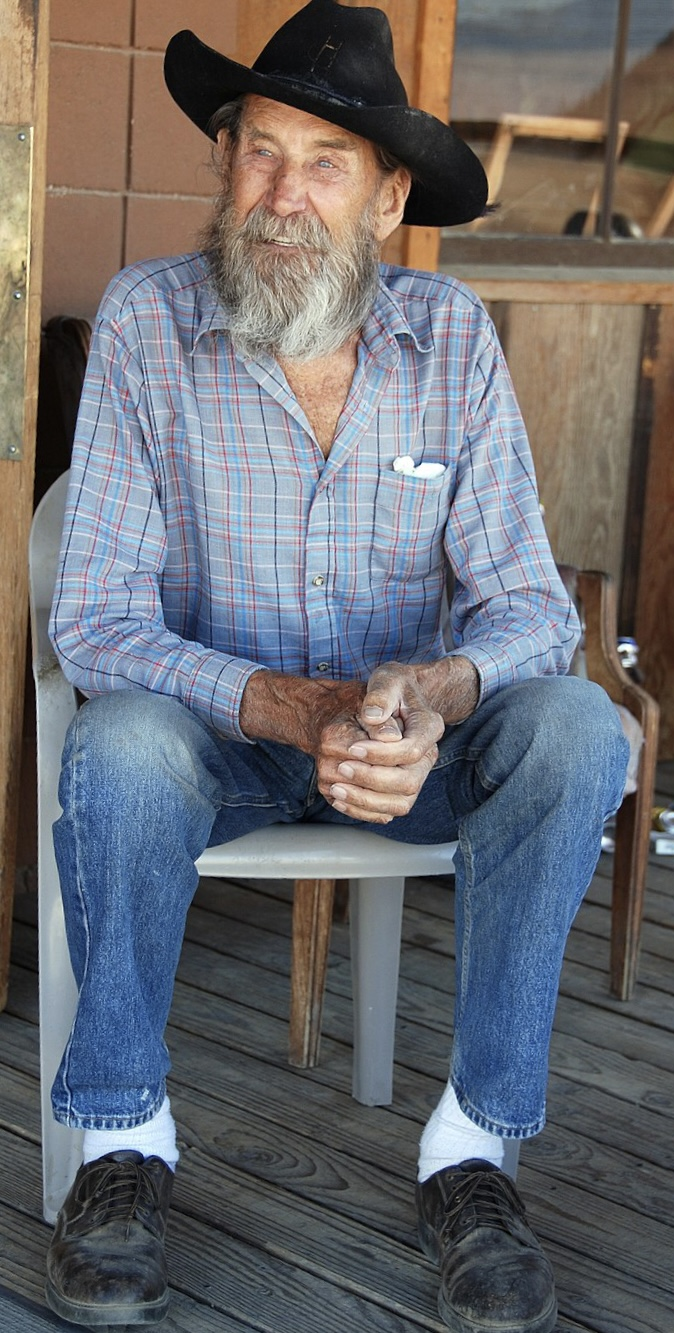 The only resident of ghost town Ballarat, California